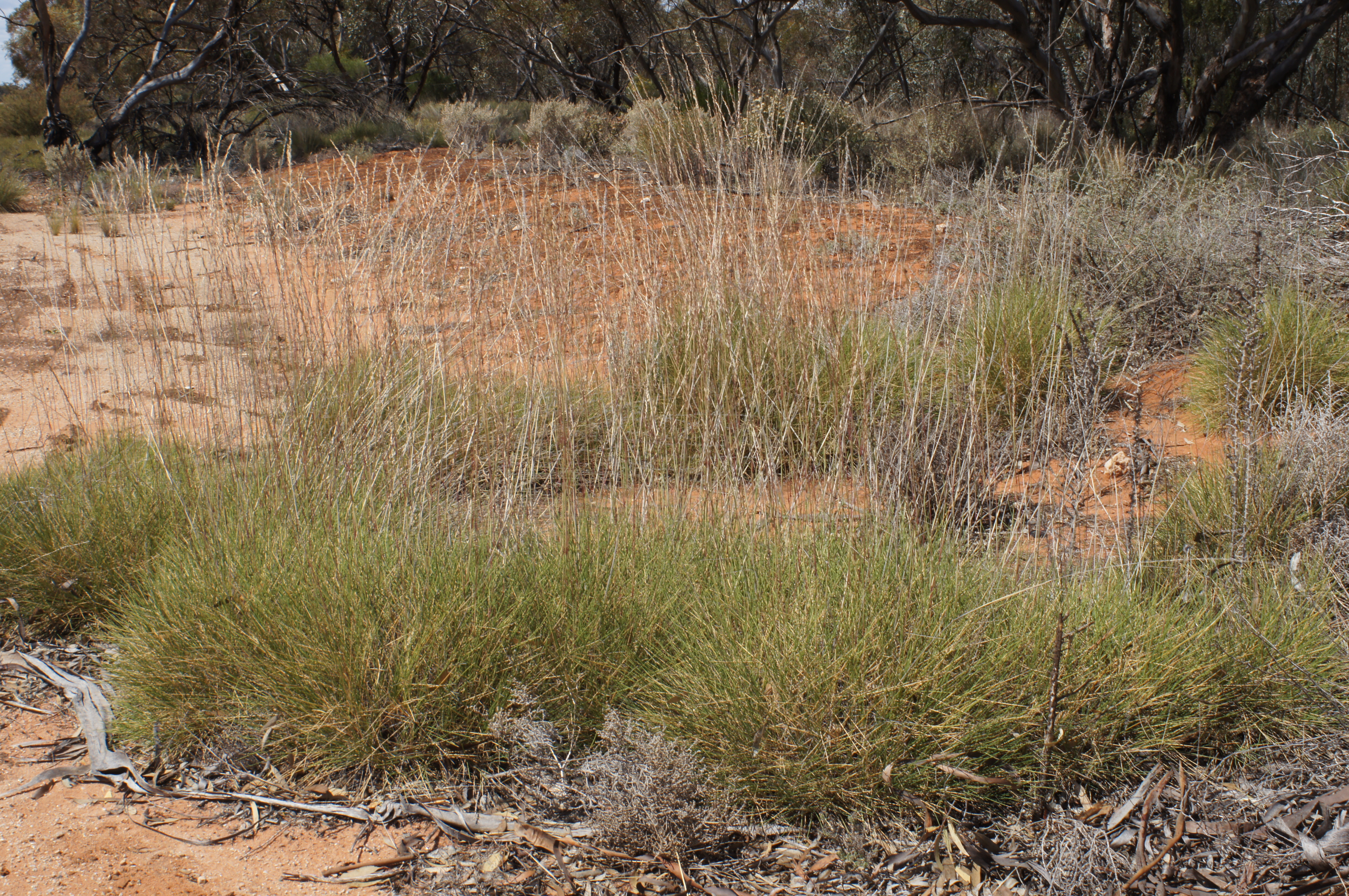 Native, warm-season, perennial, tussock or hummock-forming grass to 200 cm wide and 100 cm tall. Stems are branched and leaves are rigid, narrow, tightly rolled and sharp tipped. Flowerheads are contracted to open panicles 9-30 cm long. Flowers anytime after heavy rain. Found on well-drained, low fertility, sandy or rocky areas (e.g. serpentine). Native biodiversity. Slow growing and very drought tolerant. Extremely spiky; an unpalatable species, with very low feed quality for livestock. Protects sandy and rocky areas from erosion due to trampling. Provides habitat for small native animals.